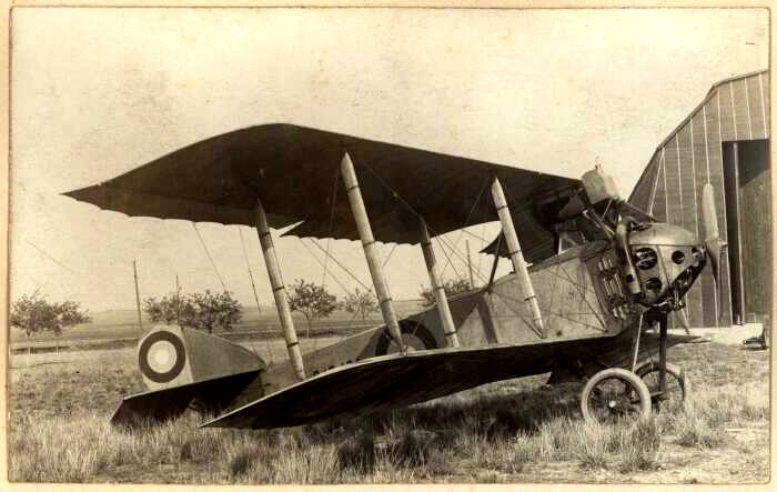 Anatra Anasal